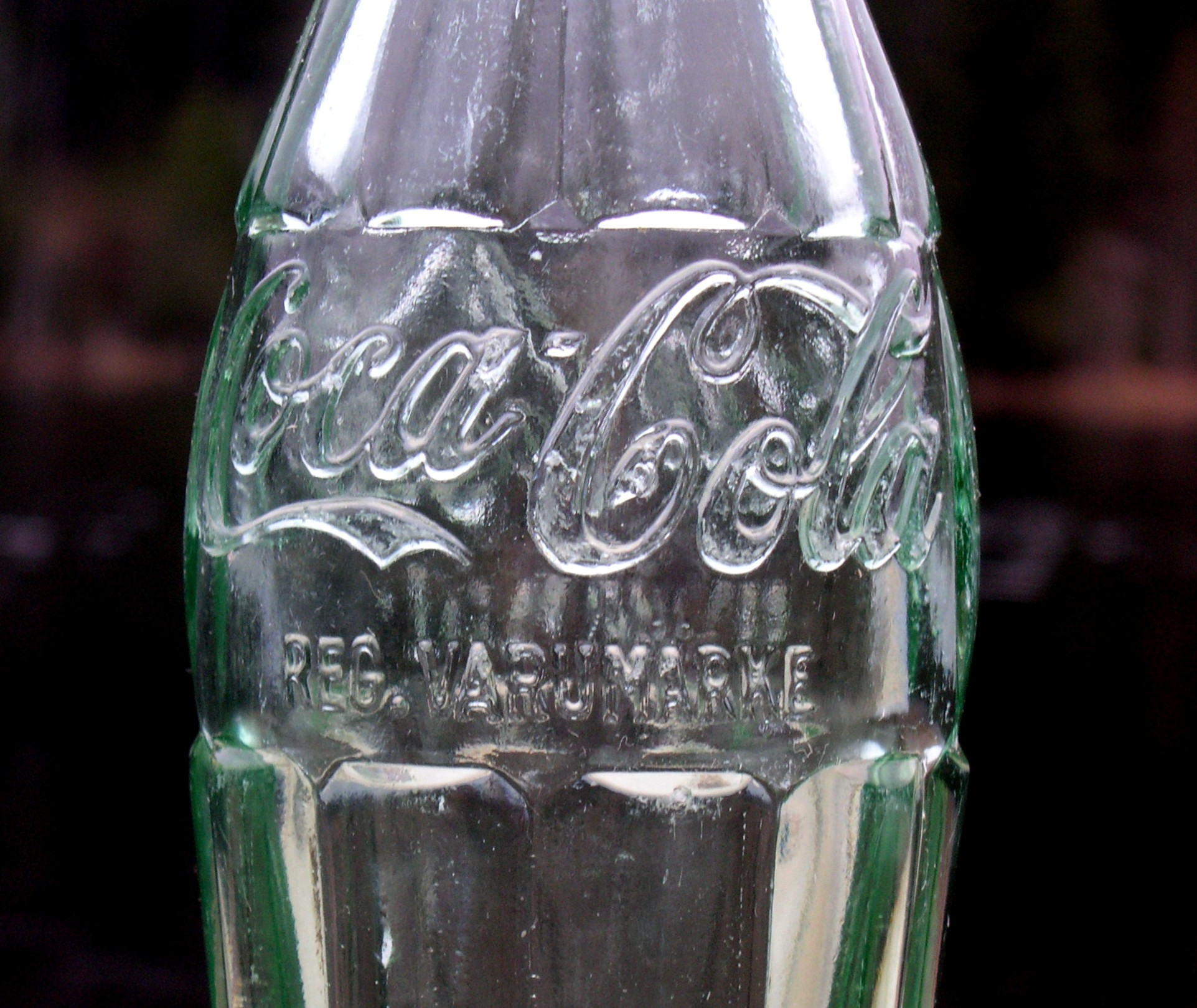 Coca Cola bottle from Sweden 1950s